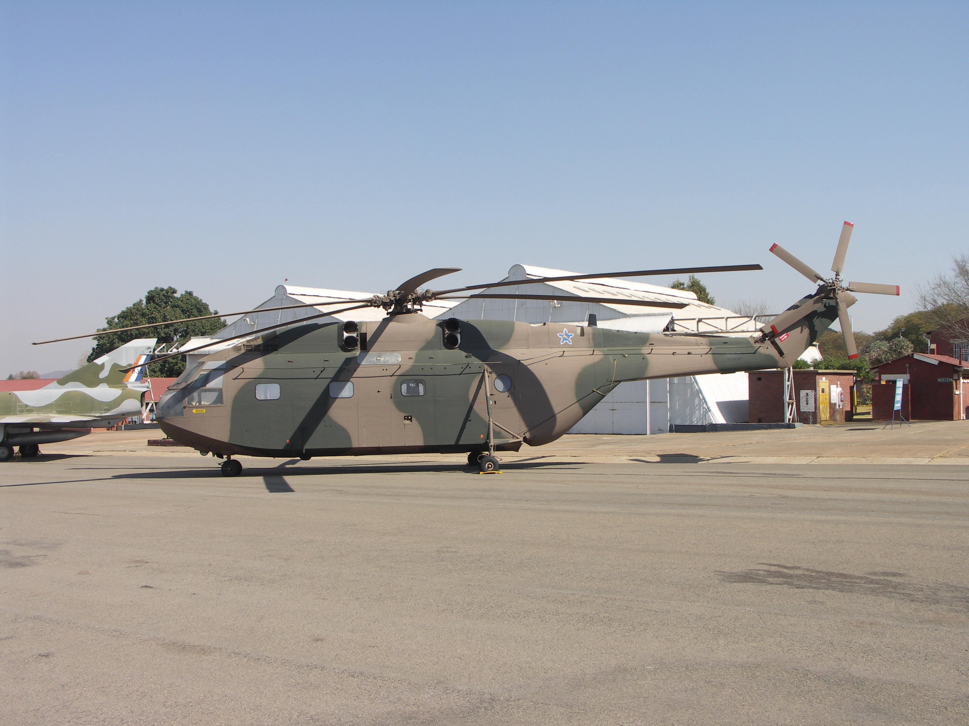 South African Air Force Super Frelon South African Air Force Museum (Swartkop)